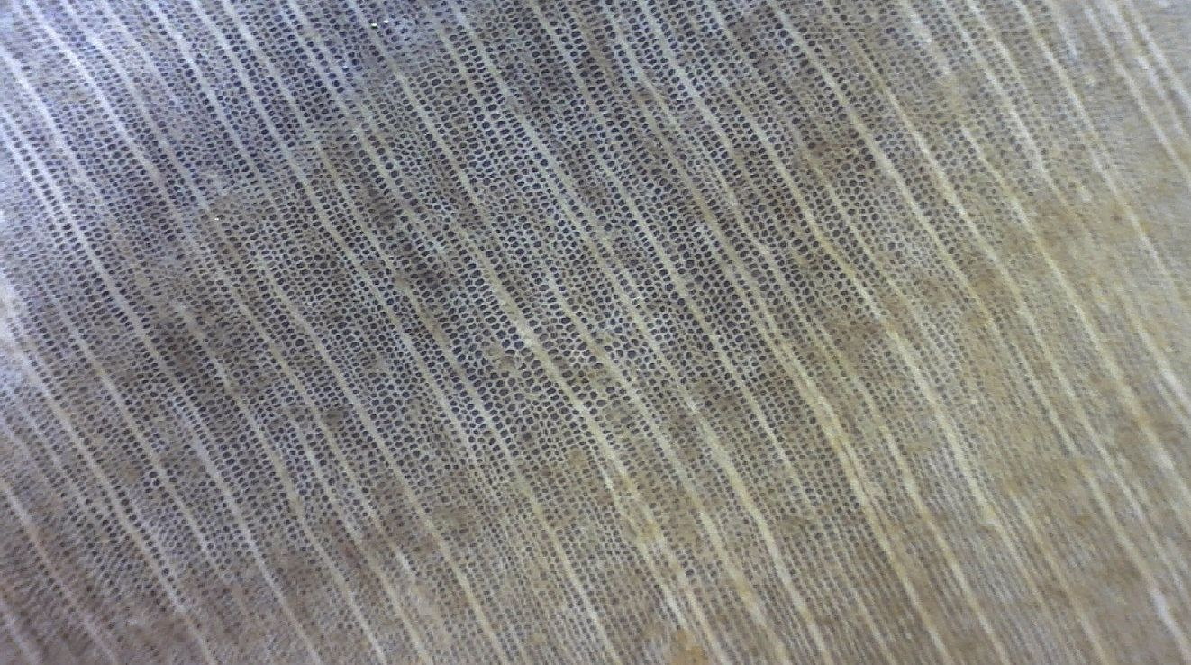 Petrified wood